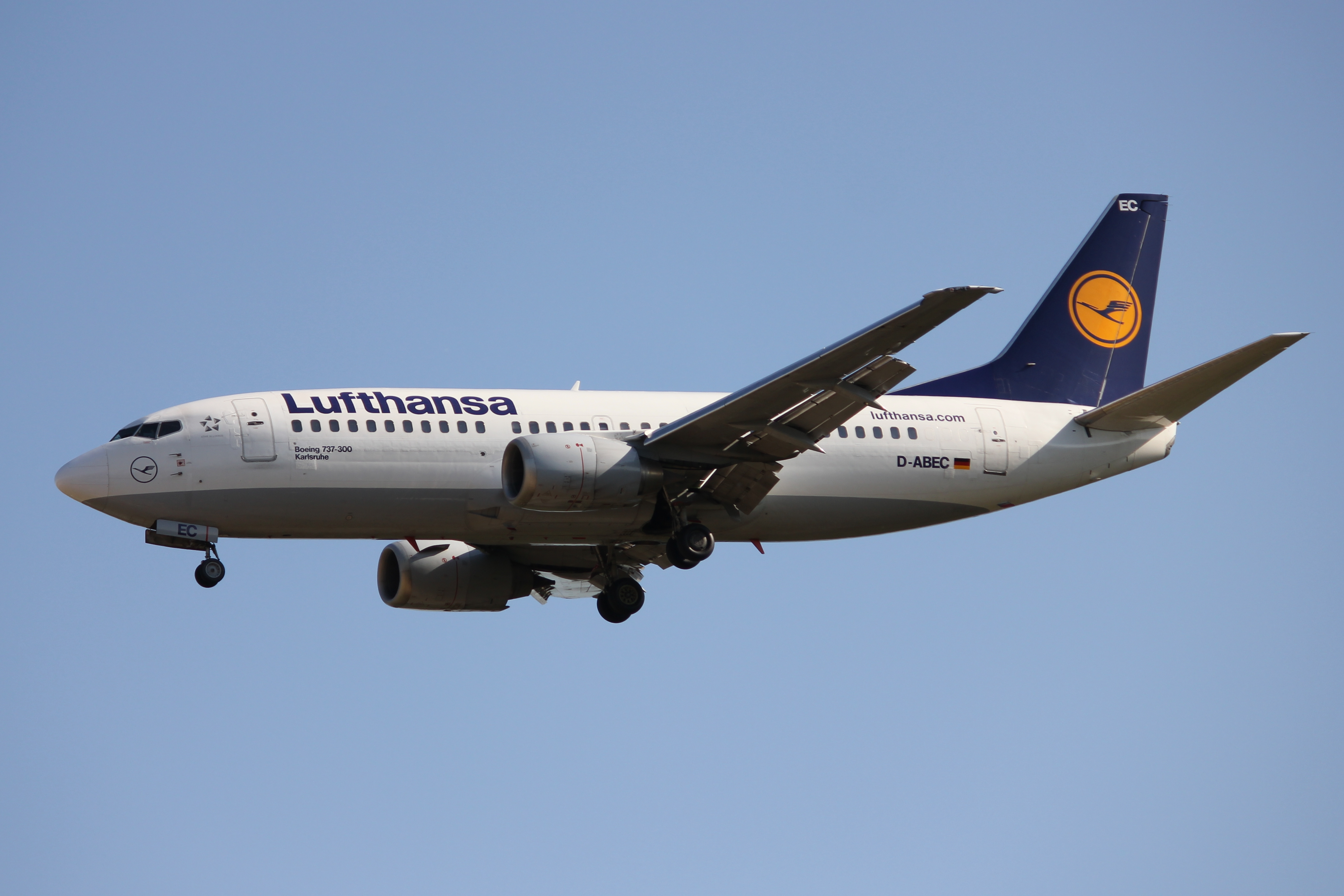 Lufthansa 737-300 landing at Frankfurt intl. Airport